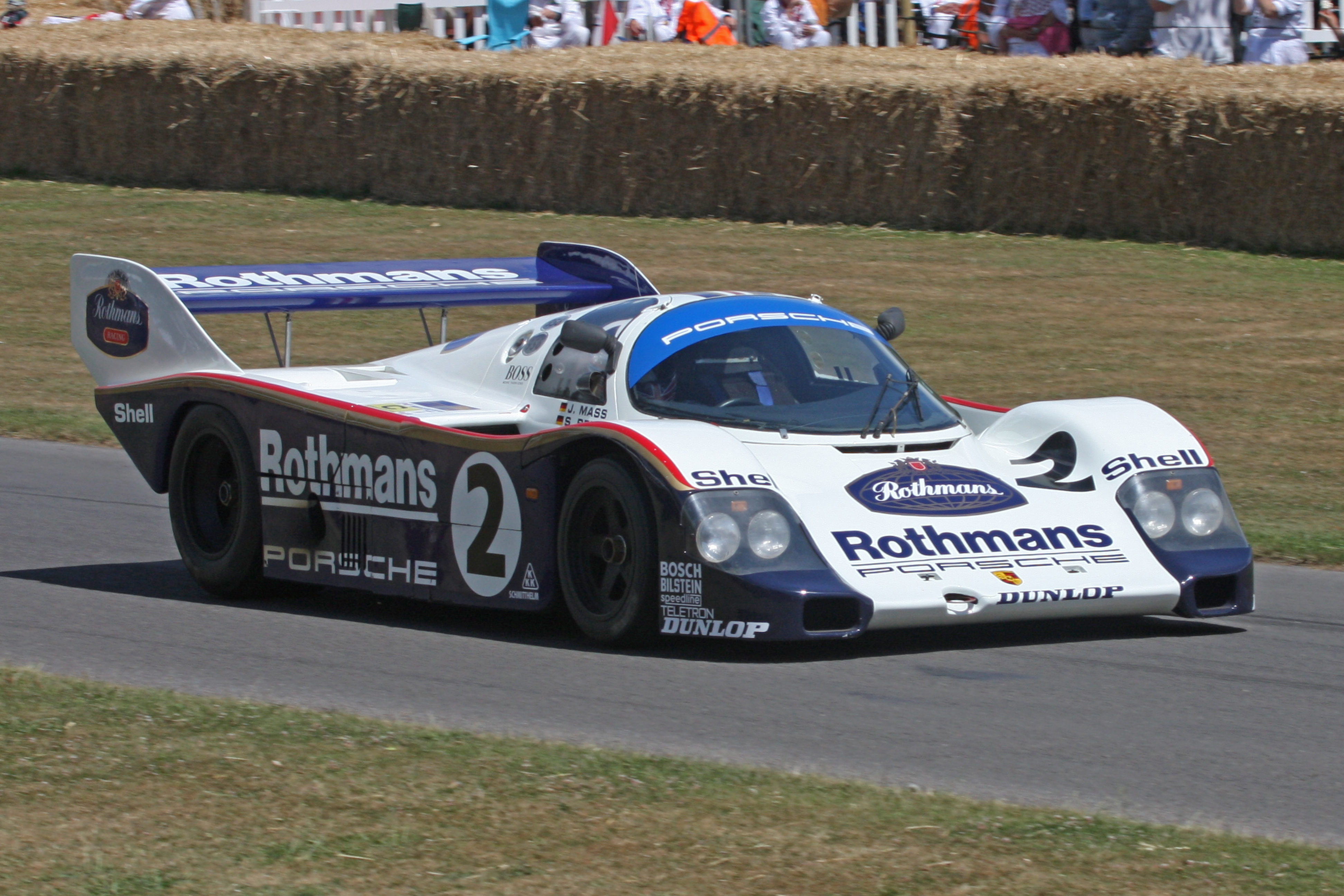 1983 Porsche 956 (high downforce version, used in all races but Le Mans)